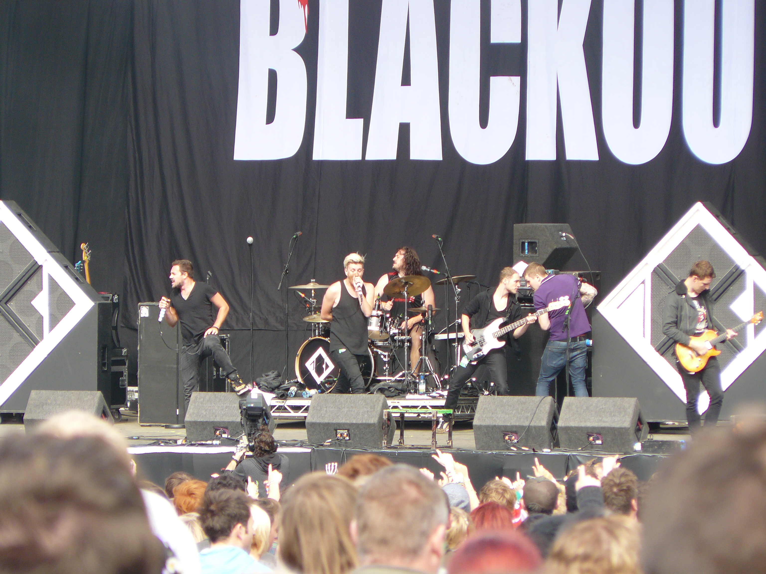 The Blackout performing at Leeds Festival 2011.